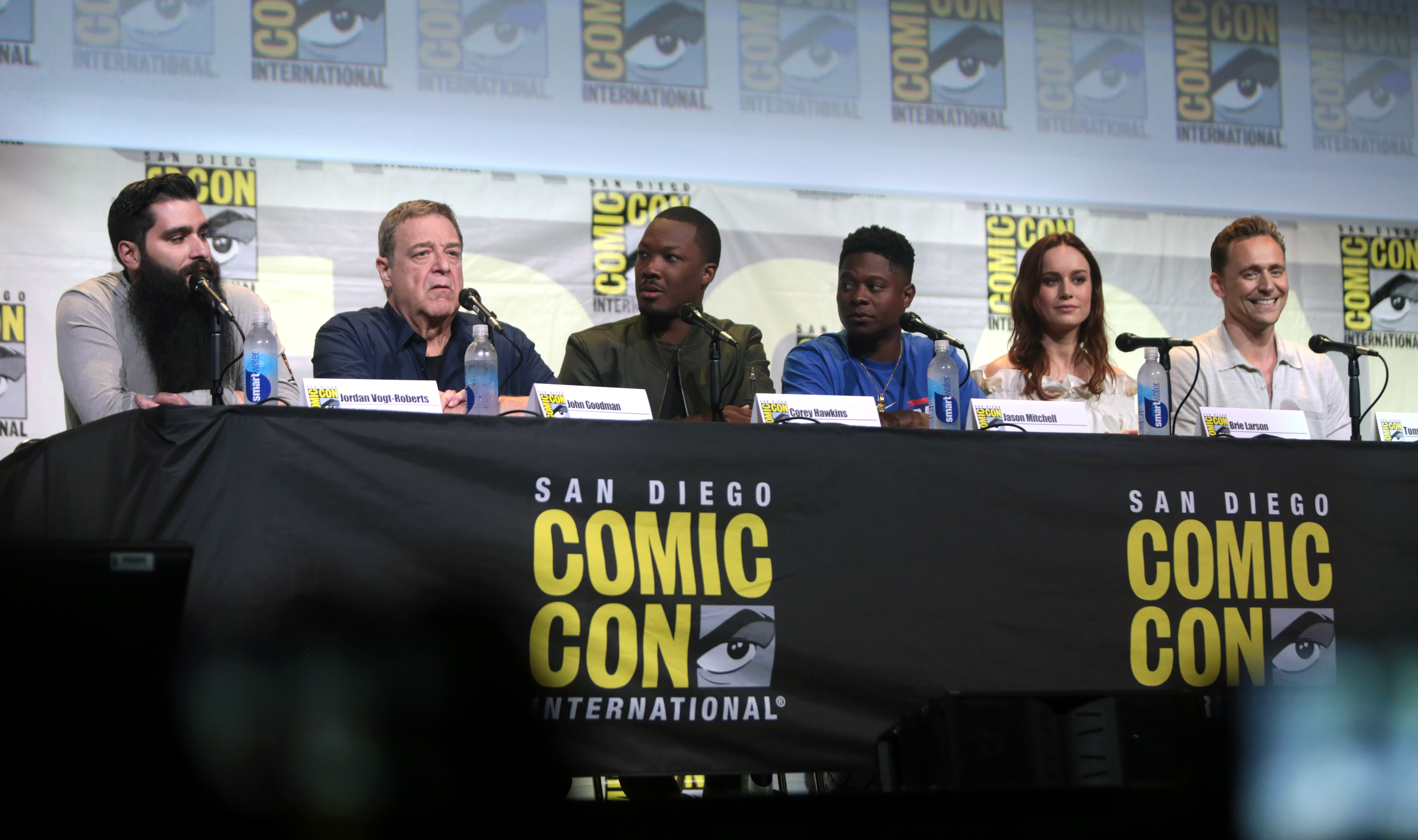 The cast of Kong: Skull Island speaking at the 2016 San Diego Comic-Con International in San Diego, California.